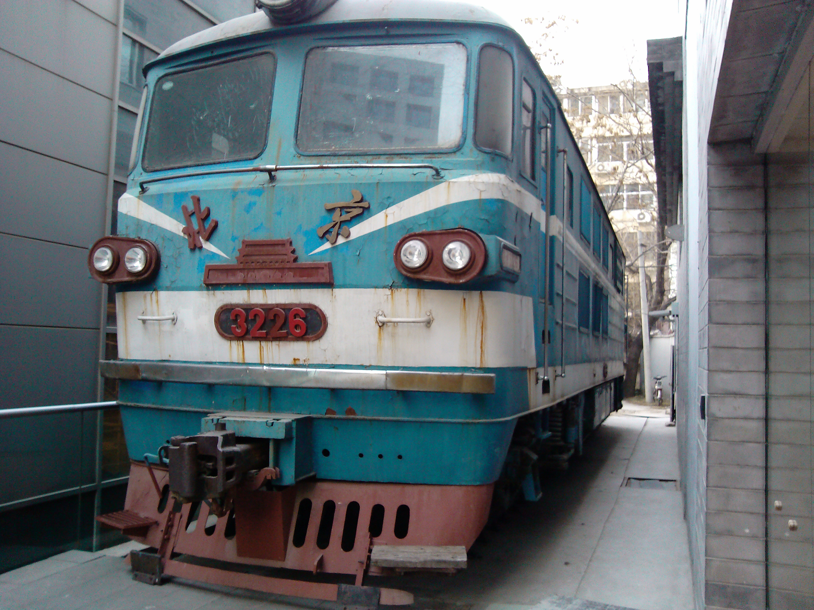 Beijing diesel locomotive No. 3226 at 'Dangdai MOMA', Dongcheng District, Beijing, preserved as the park's landscape.